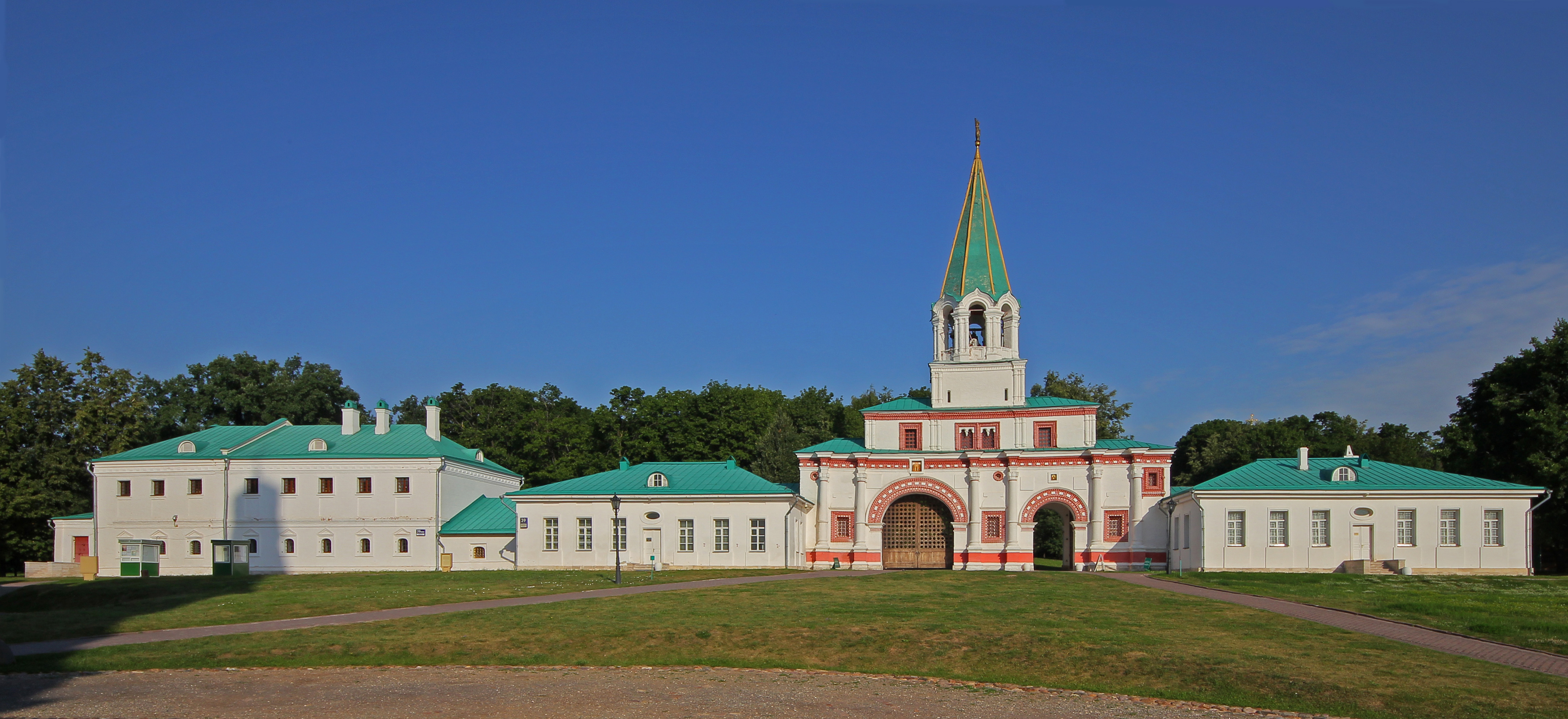 Kolomenskoe Museum Reserve in Moscow. The Front Gates with the Colonel's Palace.